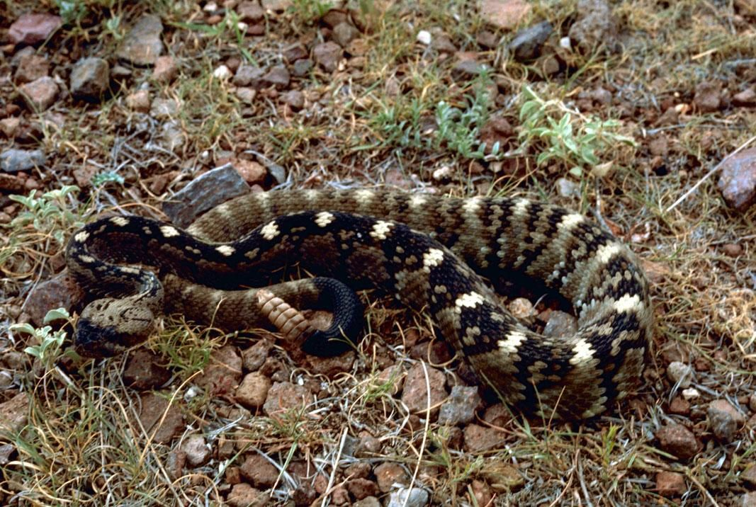 Image title: Rattlesnake coiled on ground with rocks and grass Image from Public domain images website